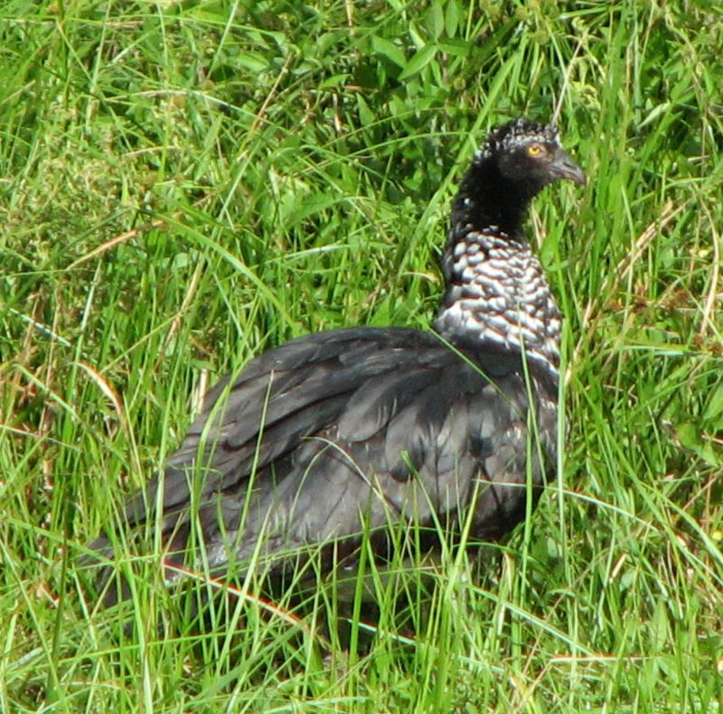 Horned Screamer (Anhima cornuta)